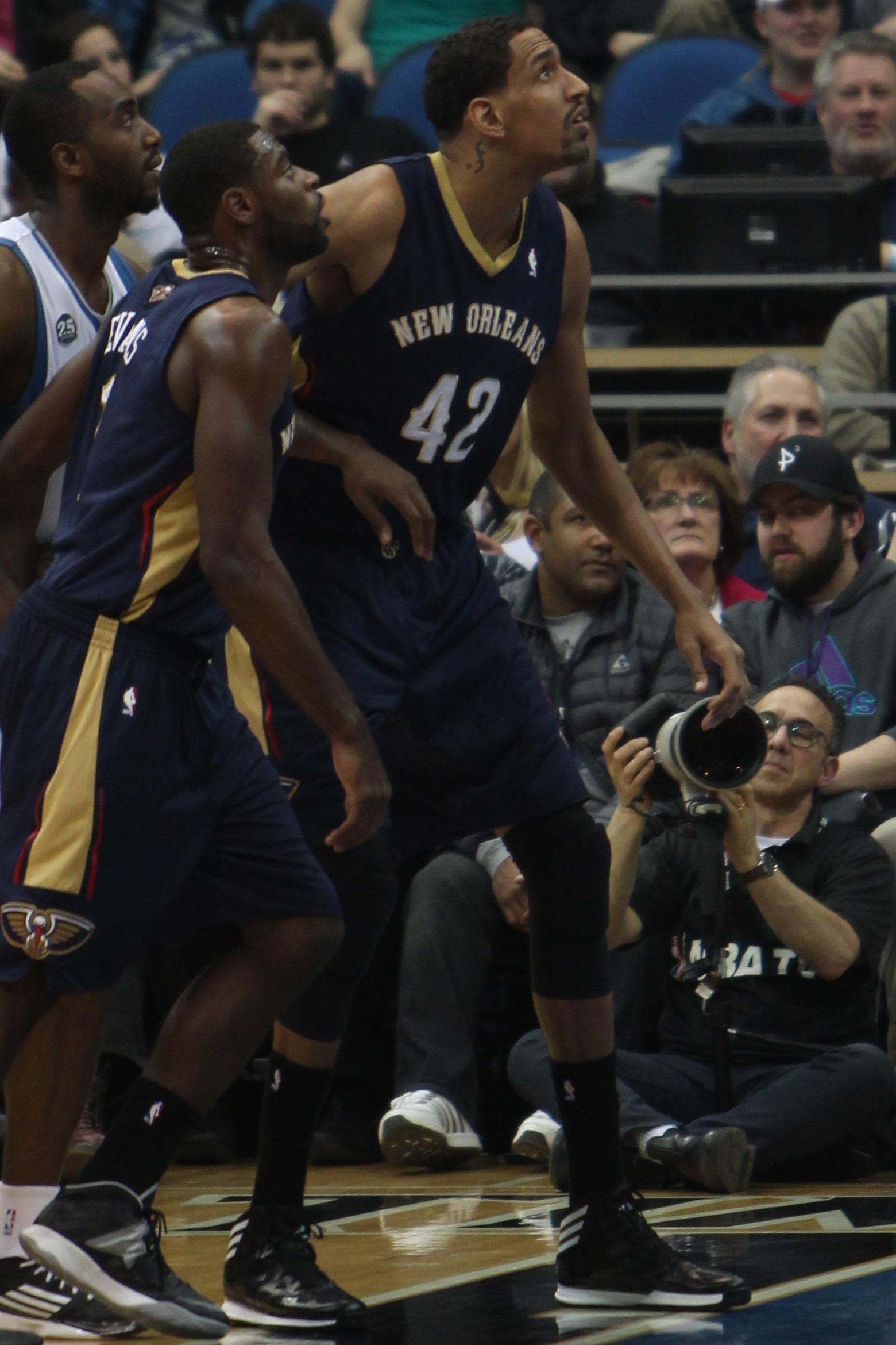 Alexis Ajinça at the Target Center